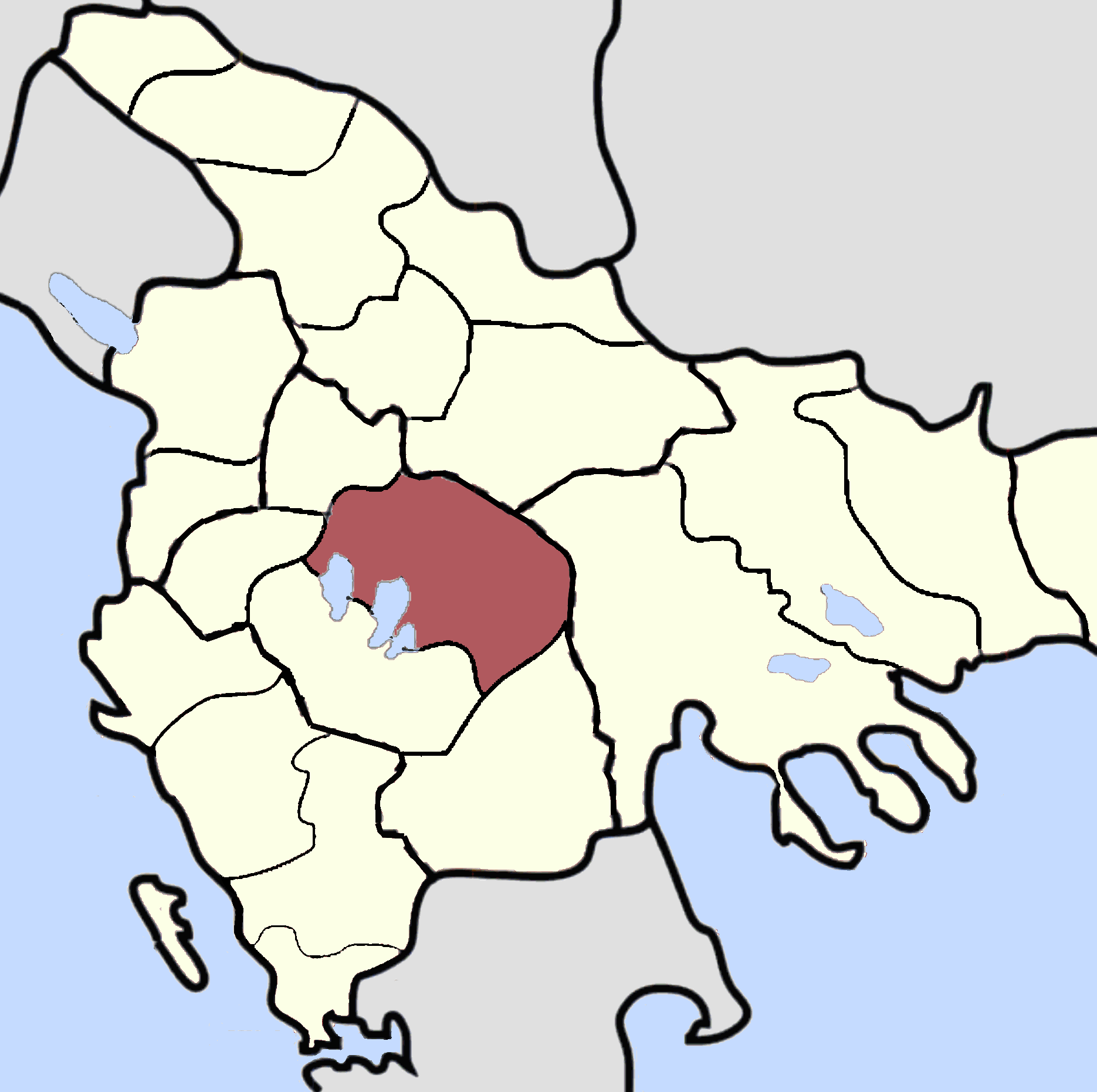 XY Sanjak, Ottoman Empire (late 19th century). Source: The Crescent and the Eagle- Ottoman Rule, Islam and the Albanians, 1874-1913 at Google Books By George Gawrych